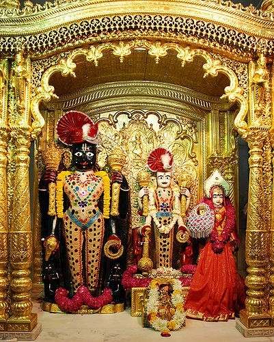 Shri Ranchhodji with Shri Laxminarayan dev at Swaminarayan Mandir Vadtal